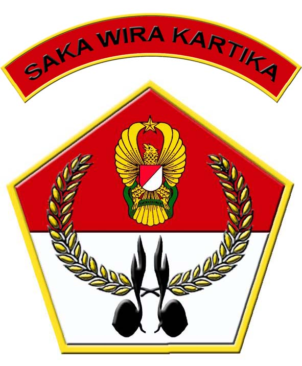 logo of saka wirakartika